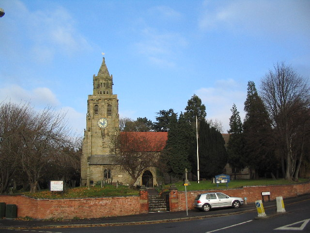 Parish church of St Mary Magdalene, The Square, Keyworth, Nottinghamshire, seen from the south